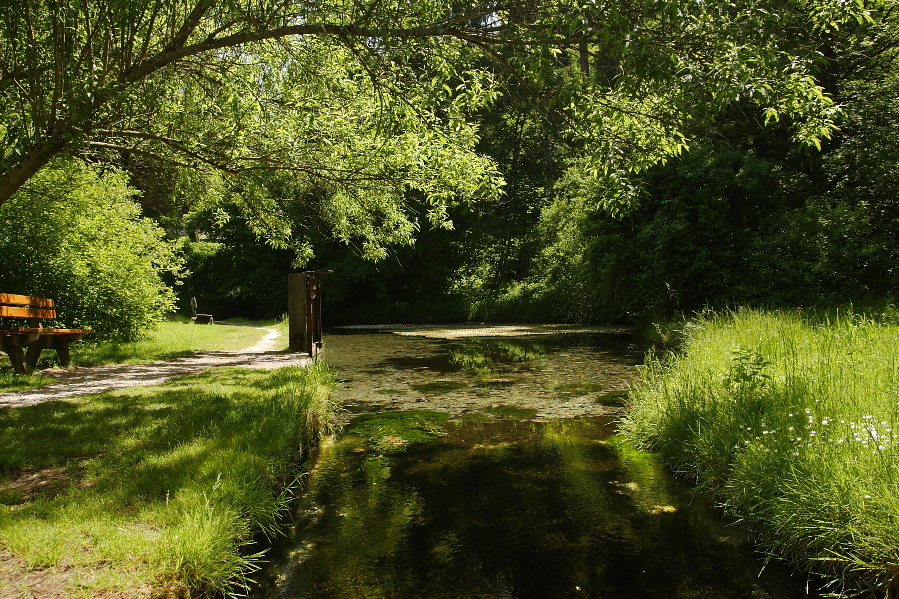 karst spring (yielding ca. 200-1500l/s) of the „Große Lauter“ (tributary of the Donau) at Offenhausen, Swabian Alb. The idyllic spring’s small lake is within the old walls of the former nunnery of the Dominican order. The monastery was given up and replaced with a stud farm already in 1600. Today the whole estate, the church (museum), the horse stable, various farm buildings belong to one of the three Marbach studs. The spring’s water, which drops by ca. 3 m behind the lake, runs into a small powerhouse, where electric power used to be generated.